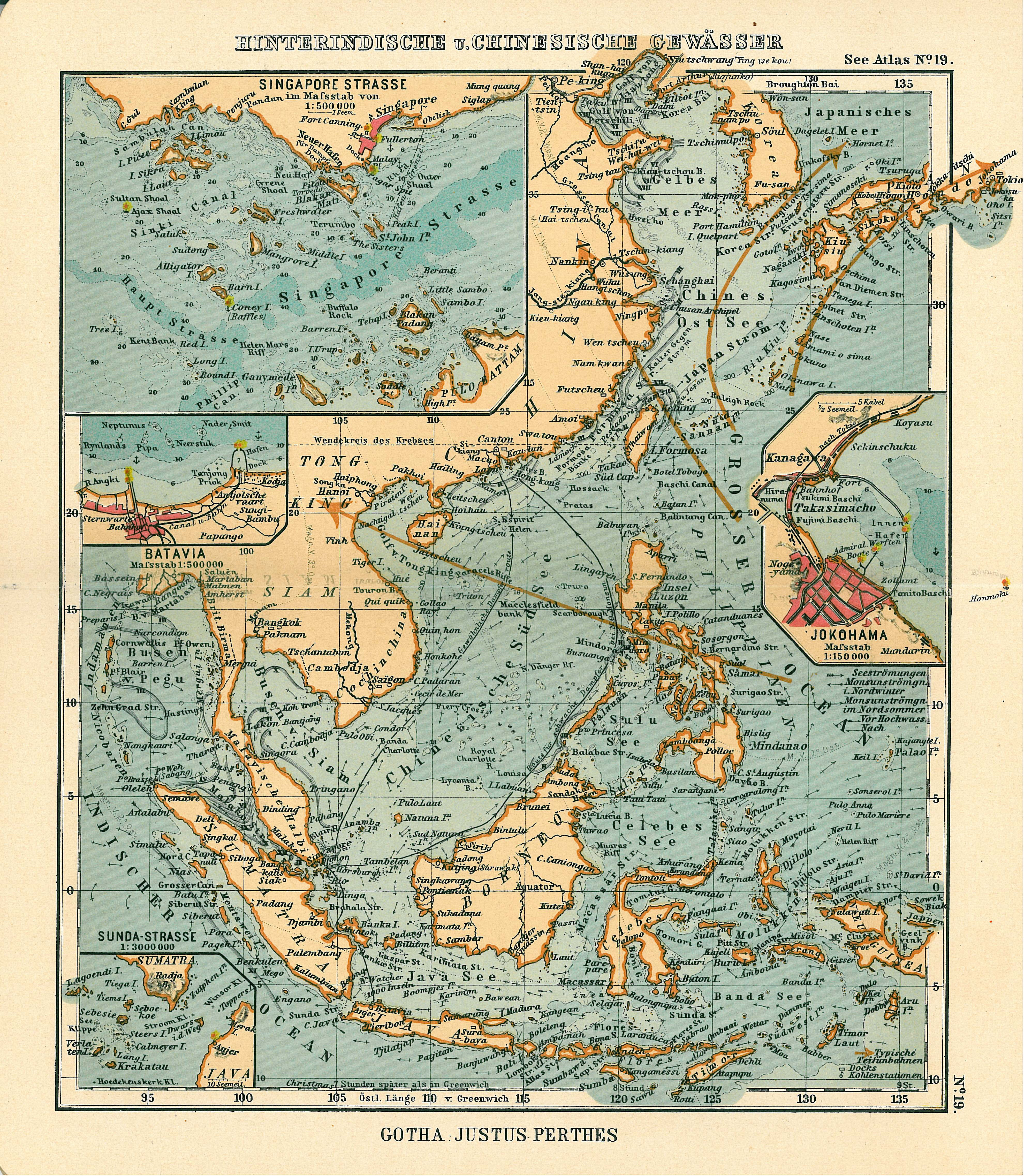 Page 19, South China Sea, Inset maps of Singapore strait, Jokohama, Batavia, Sunda Strait